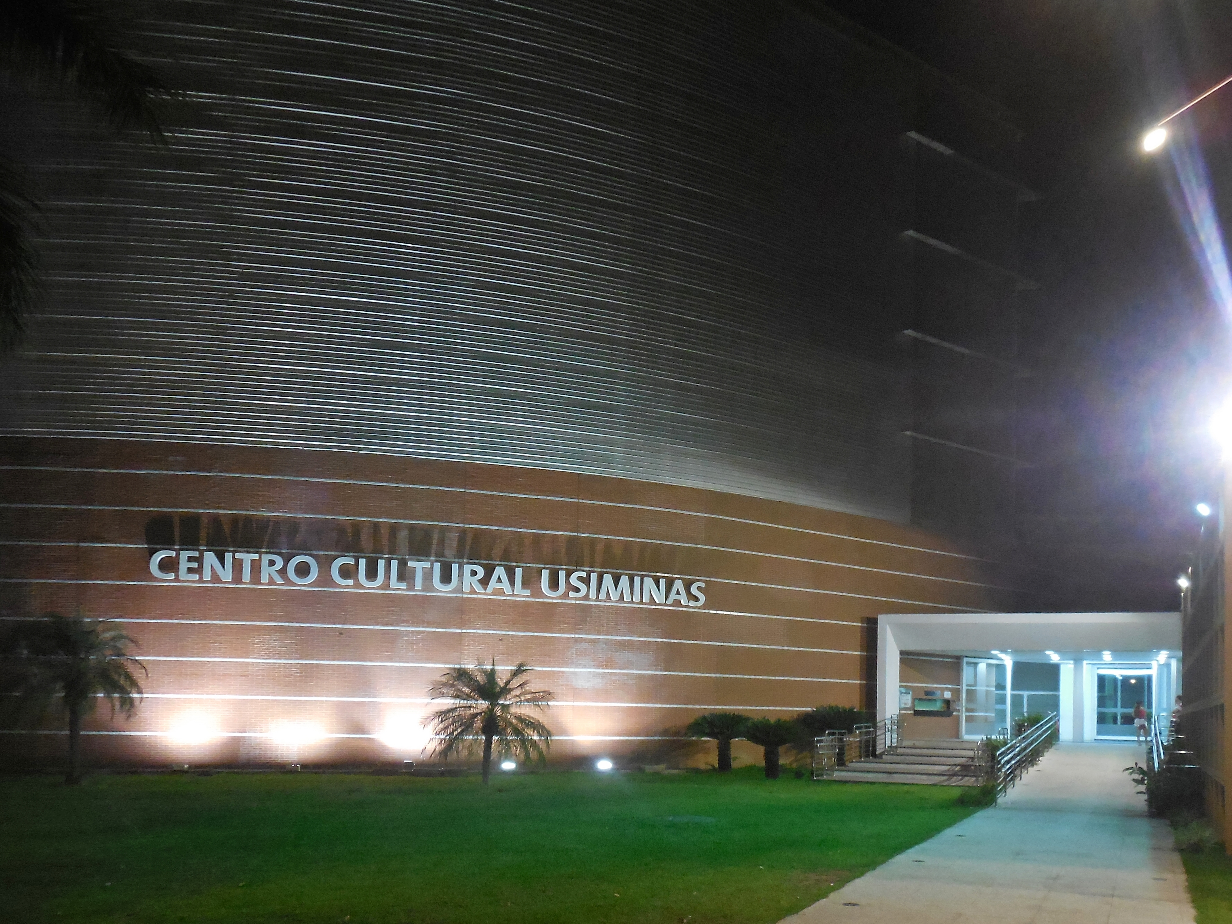 View of the Centro Cultural Usiminas (Usiminas Cultural Center), in Ipatinga, Minas Gerais, Brazil.